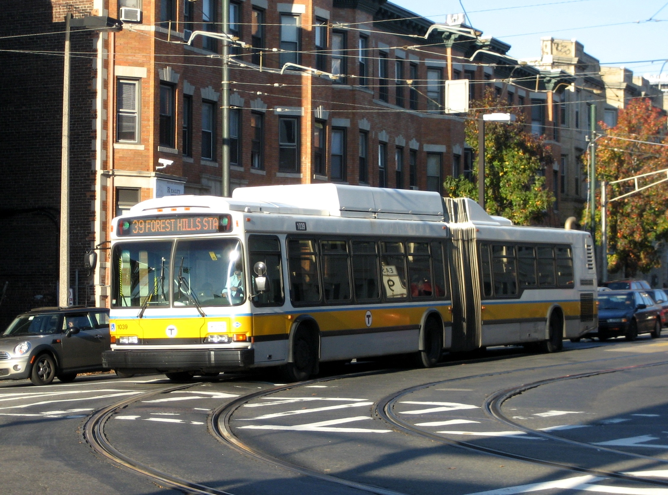 MBTA bus running on bus route 39 on Huntington Ave in Boston.